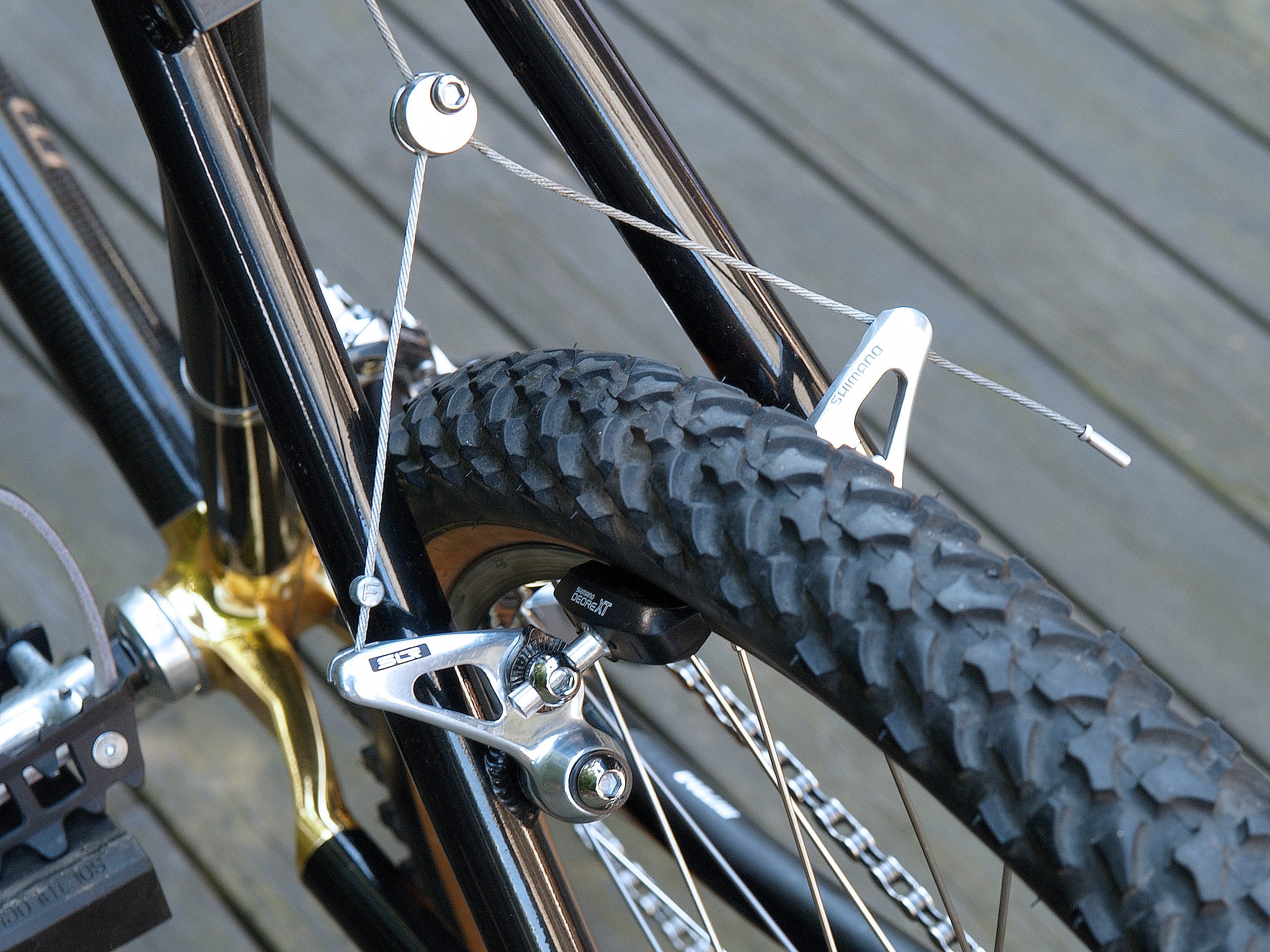 Shimano Deore XT II brakes and Ritchey MegaBite tyre on a Miyata Century